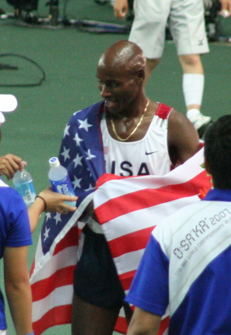 World Athletics Championships 2007 in Osaka - Men's 1500 metres winner Bernard Lagat celebrating